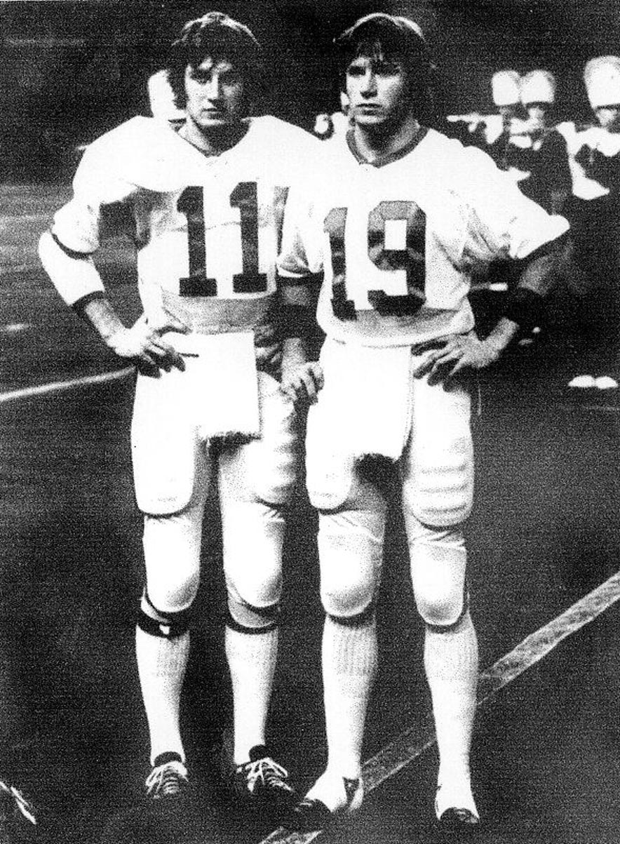 19 Don and #11 Dave Buckey, NC State University, Astro-Bluebonnet Bowl, Houston, TX, 1974.